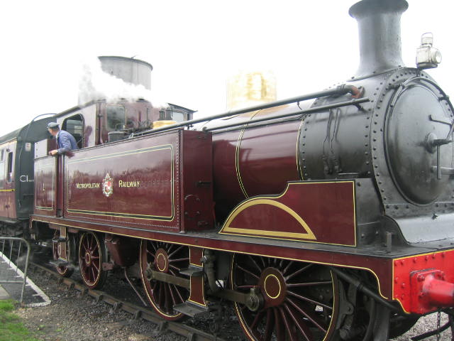 Photograph by IXIA, 2 September 2006. Not sure what I am supposed to do to "tag", but I am the author of this photograph and I give it freely to Wikipedia to use. L44 (No.1) had the honour of working the last steam-hauled LT passenger train in 1961, and survived in use until 1965; it is now preserved at the Buckinghamshire Railway Centre. Metropolitan Railway 0-4-4T E Class No. 1 No.1 was maintained in main-line condition and made occasional forays onto its old home lines during the "Steam on the Met" events which took place between 1989 and 2000. It received a full overhaul in 2001. In 2007 No.1 made its first visit away from Buckinghamshire Railway Centre, arriving at the Bluebell Railway on 24 July in order to take part in the "Bluebell 125" celebrations. While there it was paired with four original Metropolitan Railway carriages which have been restored by the Bluebell.